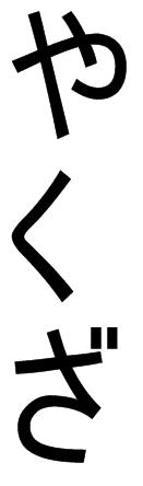 The word Yakuza written in Hiragana